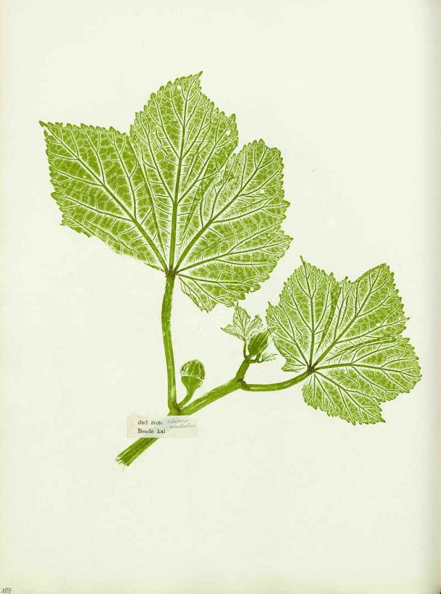 Hibiscus esculentus L. is a synonym of Abelmoschus esculentus (L.) Moench - from "Series of Useful and Ornamental Plates of the South Indian Flora"